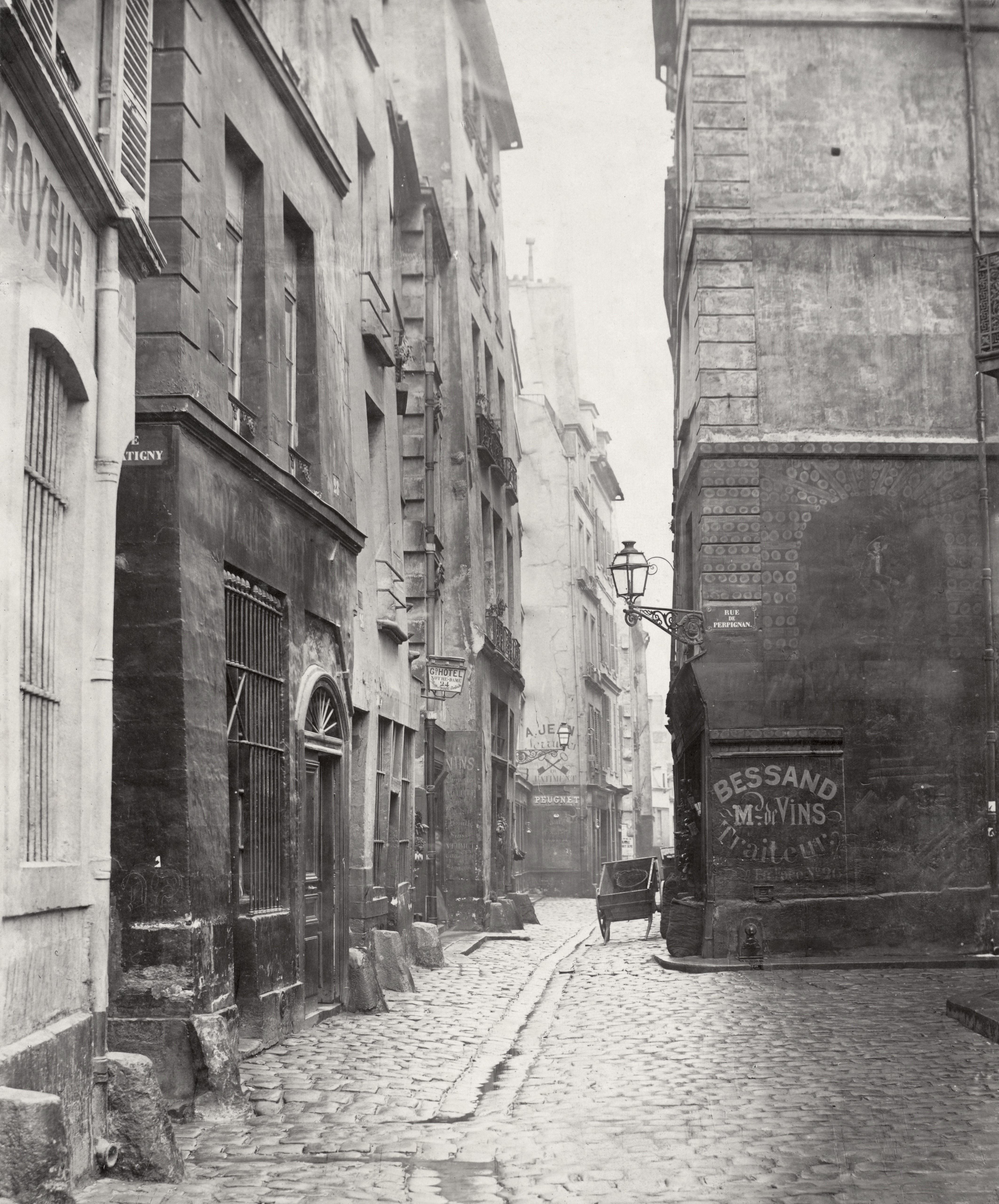 Looking along cobbled street gutter running down centre of road, doors opening directly onto street, street branching off on right with wall plaque reading: Rue de Perpignan; lamp with sign Hotel de Notre Dame on wall on left; hand cart in street.